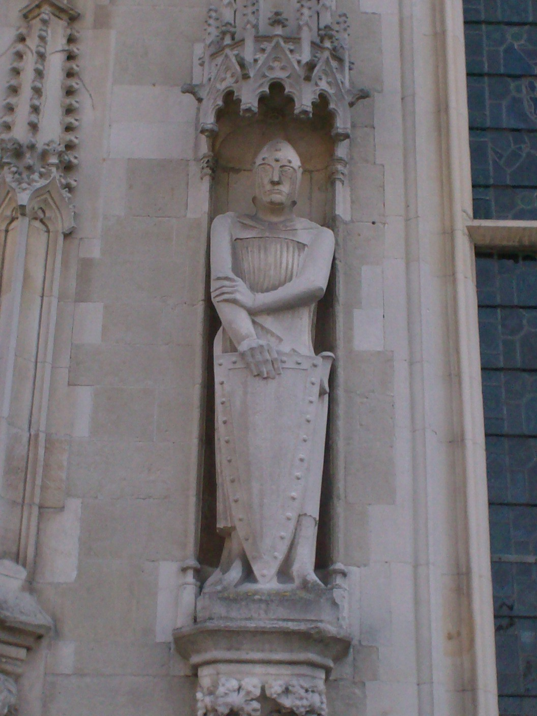 Statue of Baldwin I, Count of Flanders. Town hall in Bruges (Belgium) by Livia Canestraro & Stefaan Depuydt